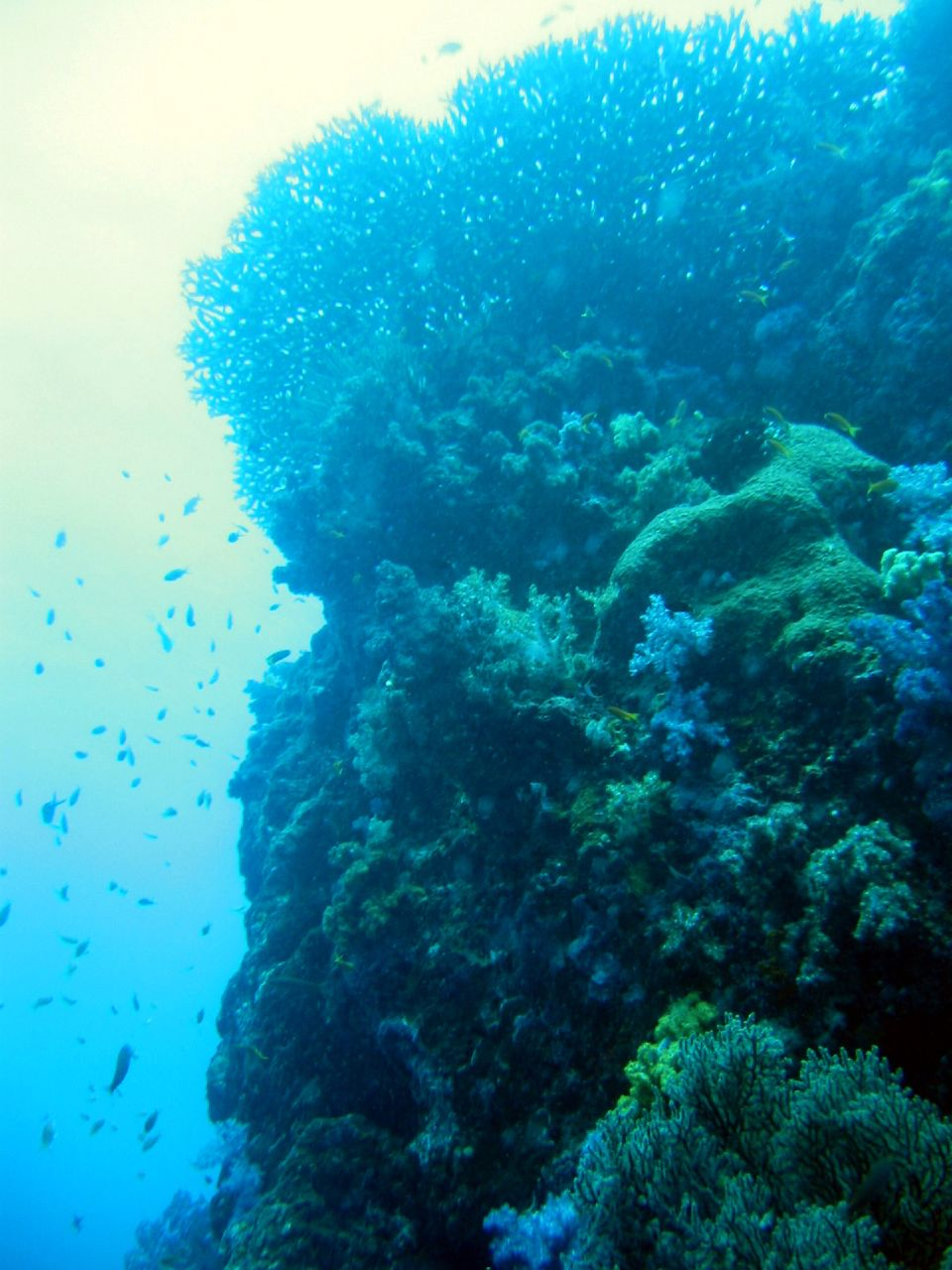 I'm in Heaven. Coral reef at East of Eden, Similan, Phuket, Thailand. April 04